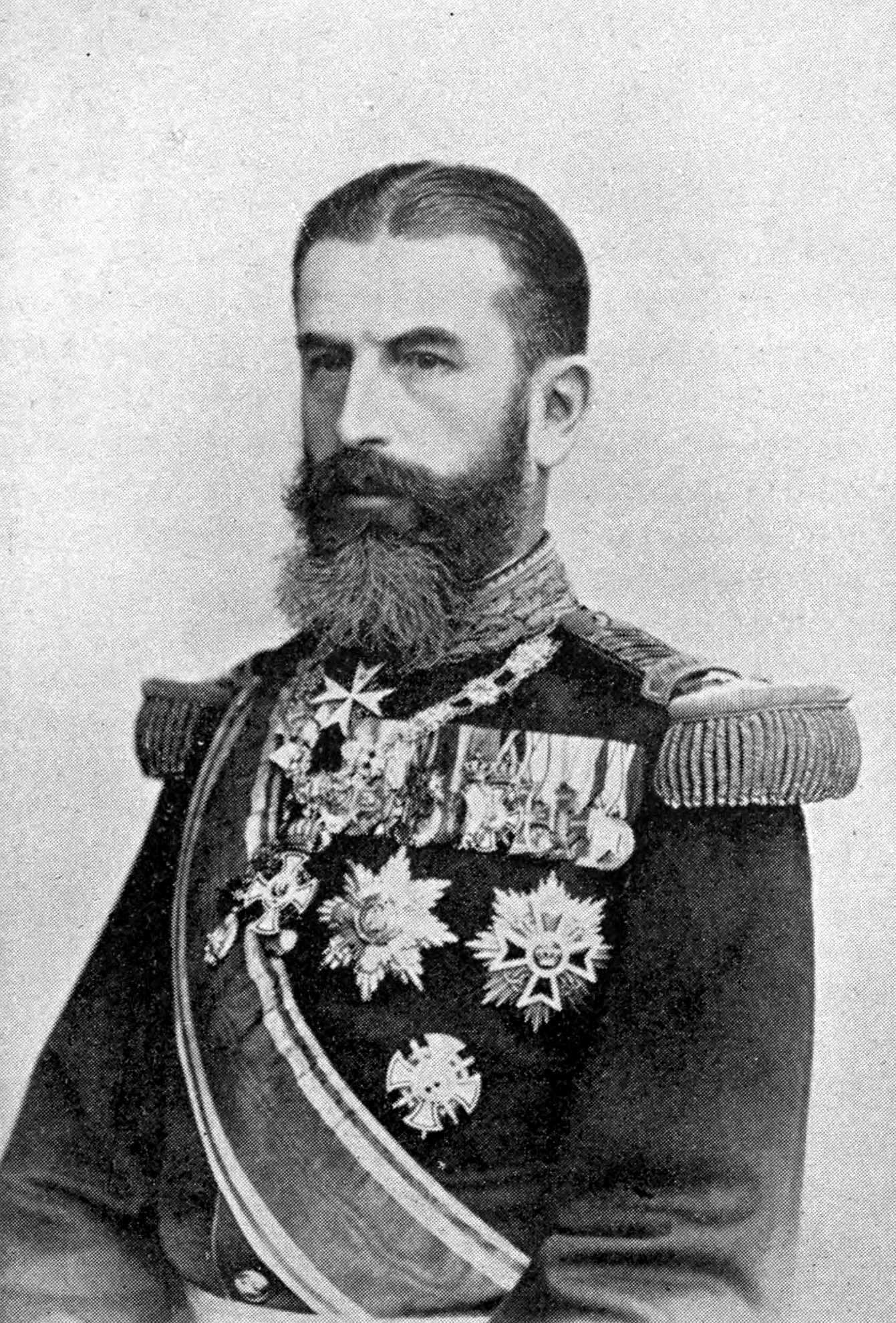 Carol I of Romania